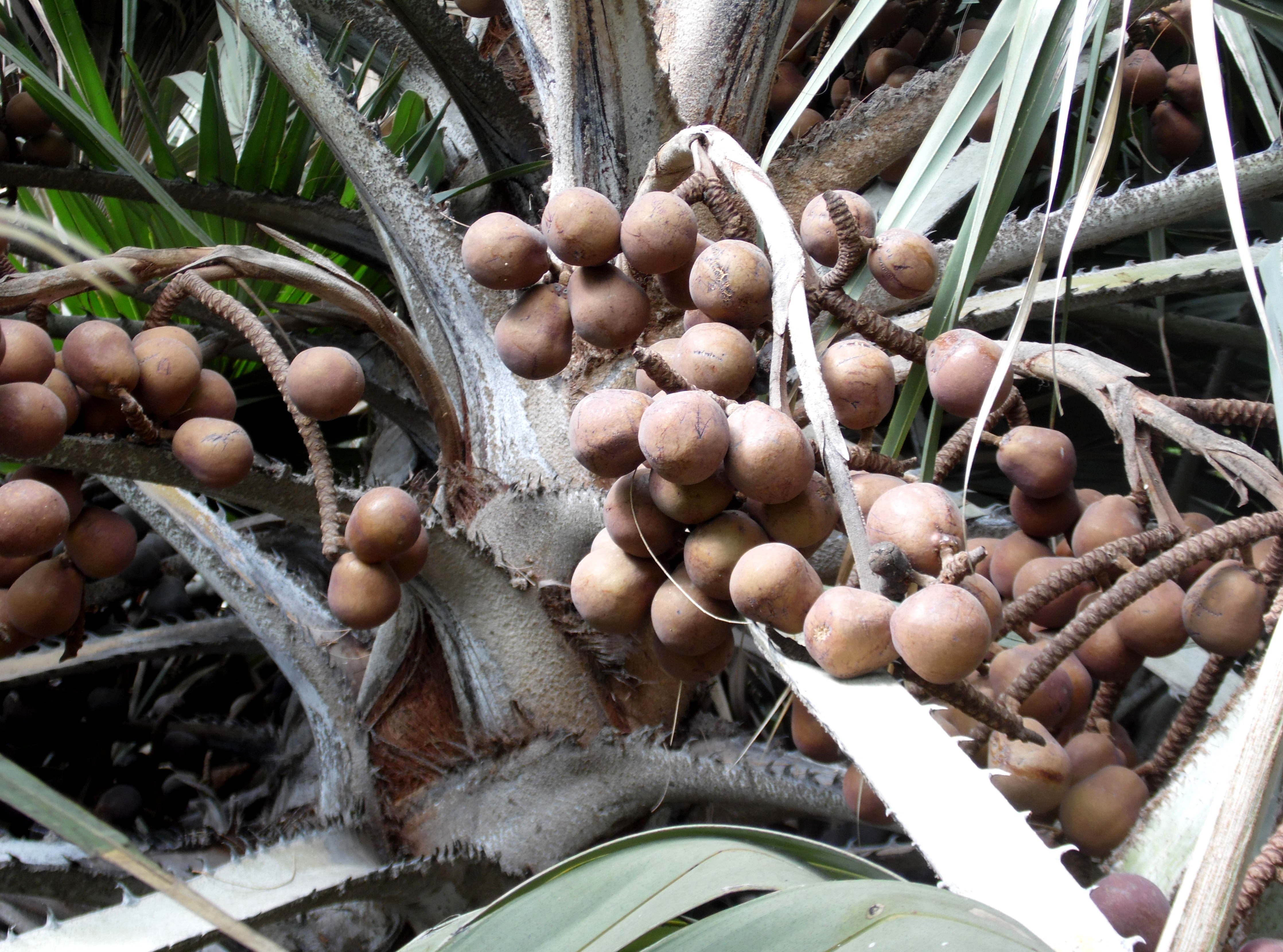 Hyphaene coriacea in Parque Botánico de Maspalomas, Gran Canaria